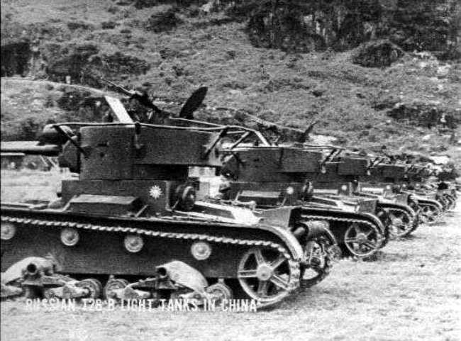 NRA T-26 Tanks at Hunan. Notice long barreled guns, similar Vickers 6-Ton tanks also in Chinese service had short gun barrels.